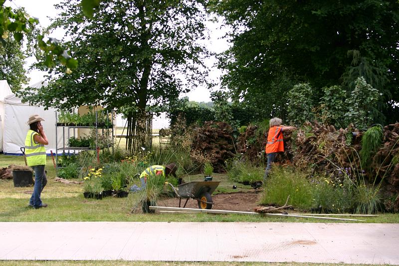 Stumpery in the London Wildlife Trust garden at the Hampton Court Flower Show 2008